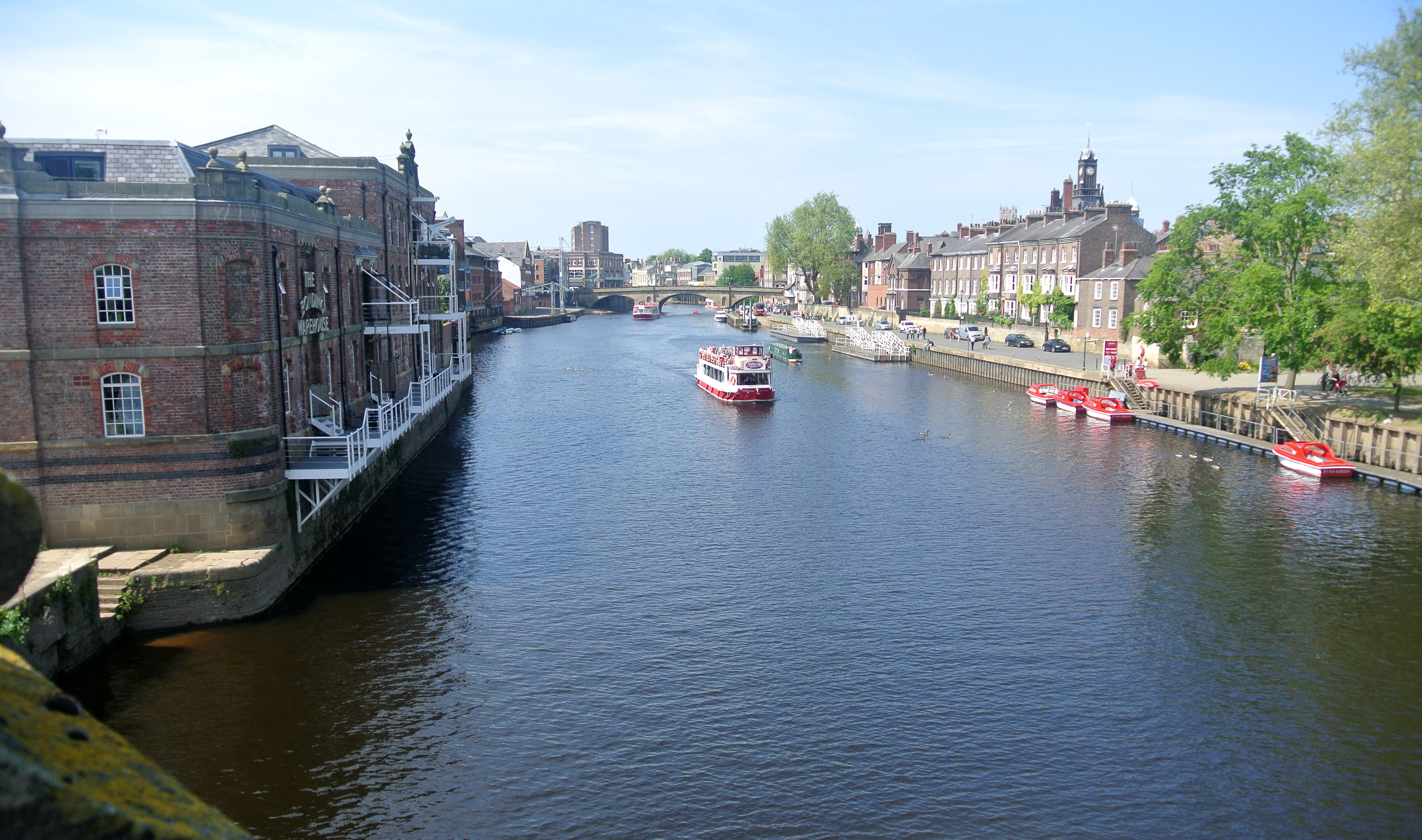 River Ouse in York from Skeldergate Bridge.